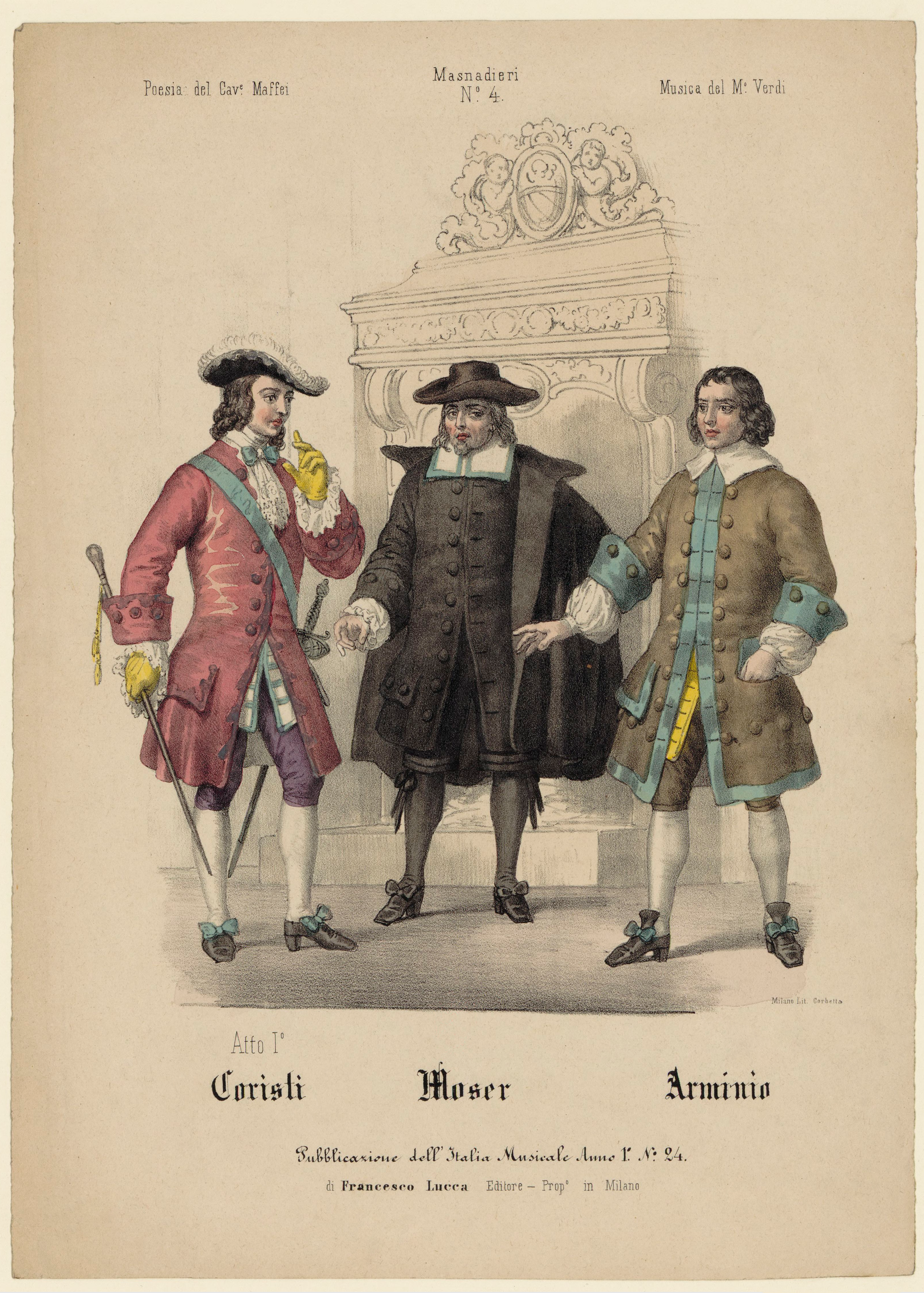 Costumes for Act I of Giuseppe Verdi's I masnadieri, showing Coristi [Chorister], Moser, and Arminio, presumably from the original performance.